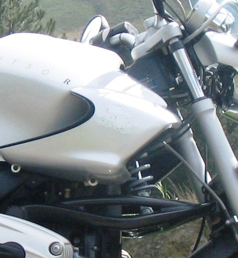 Crop of File:BMW R1150R.jpg to illustrate the Telelever system. Crop enhanced and retouched (BMW logo removed).